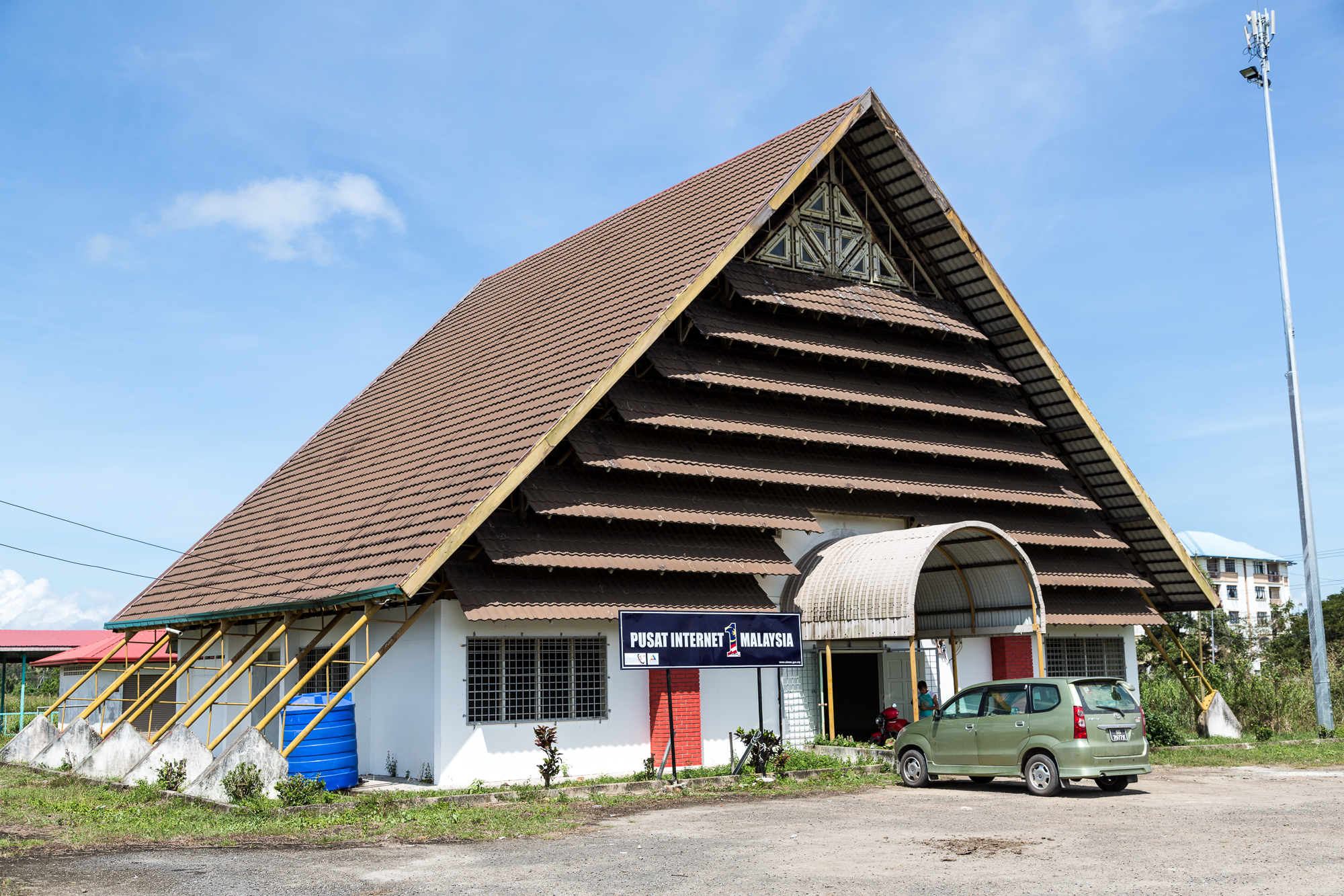 Tandek Sabah: Pusat Internet (Cybercafé)